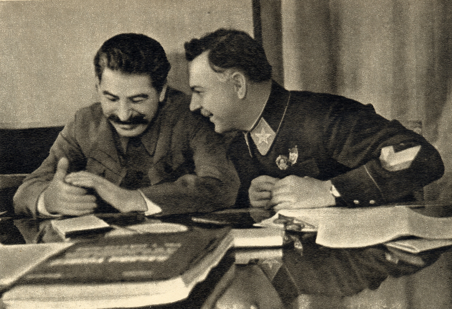 Joseph Stalin and Kliment Voroshilov, December 1935.